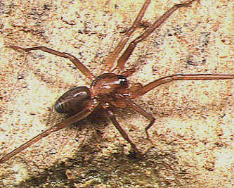 male Phrurolithus lynx from Okinawa.